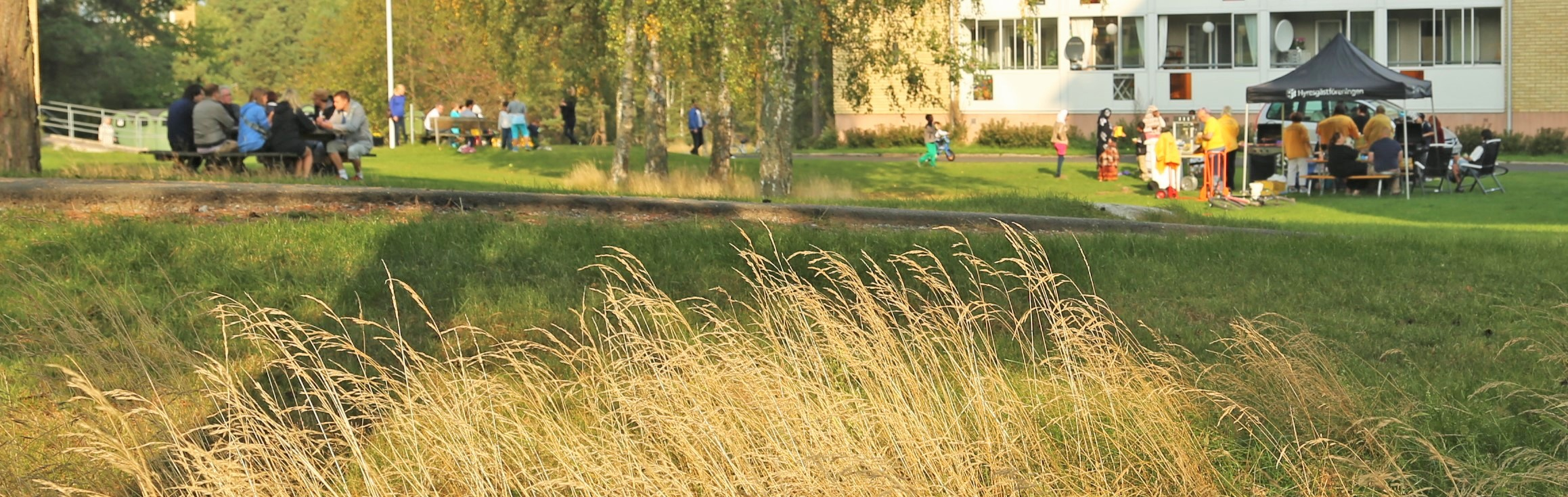 A noon-profit association having a barbeque